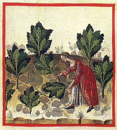 Nature: Warm in the first degree, dry in the second. Optimum: The fresh and fleshy ones. Usefulness: They remove obstructions. Dangers: They are bad for the intestines. Neutralization of the Dangers: With much oil.